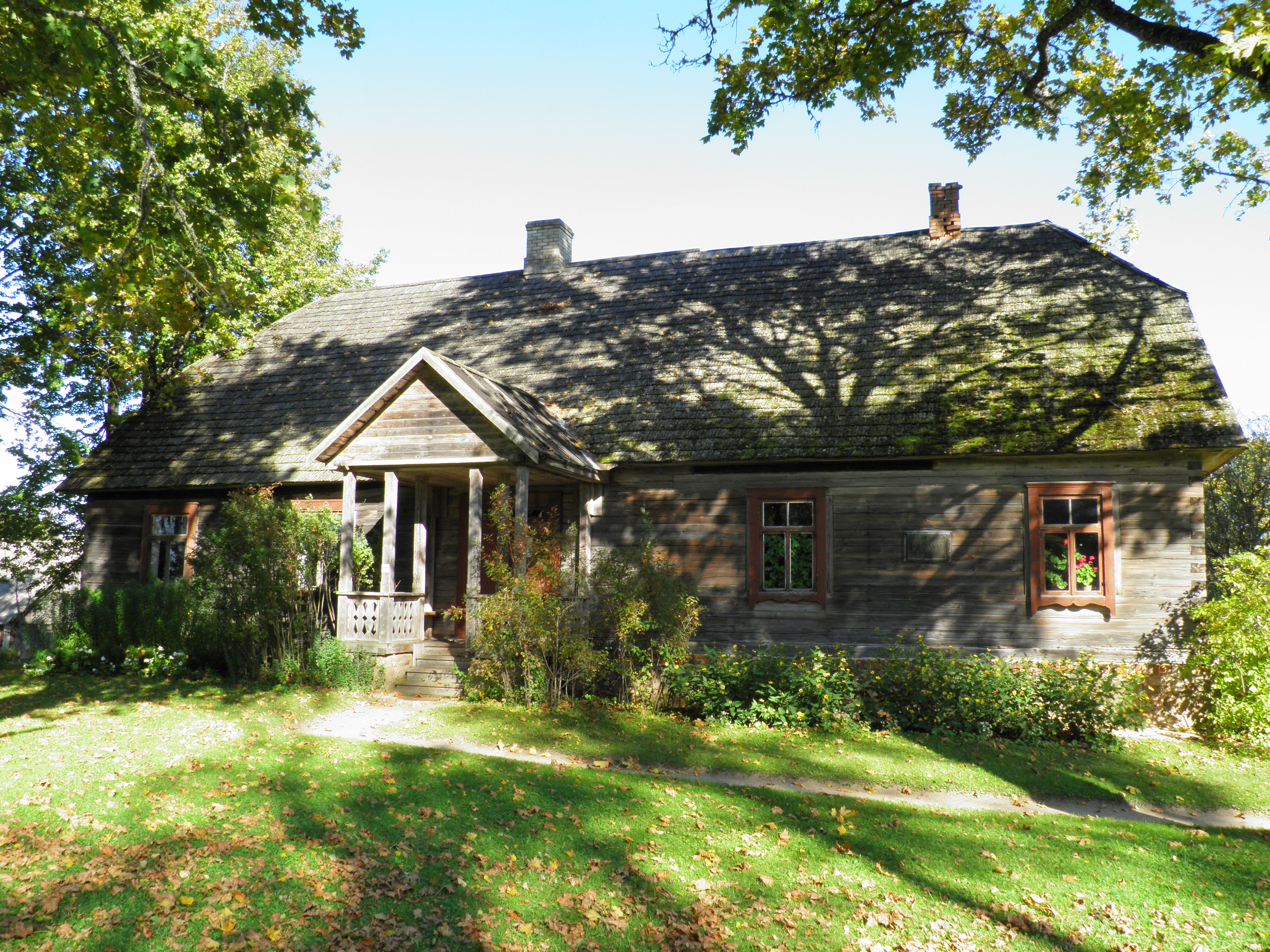 House